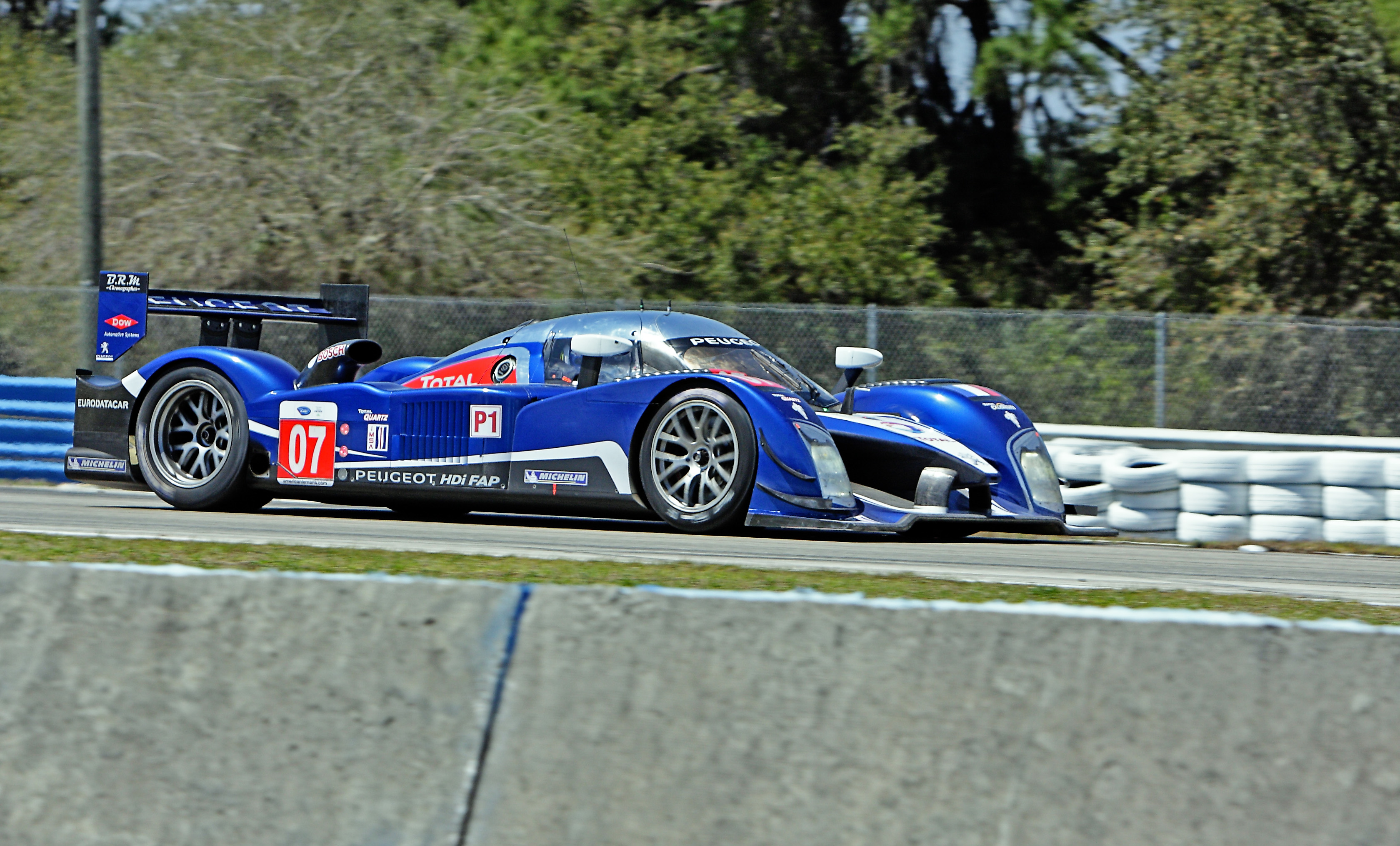 7 Peugeot 908 HDI FAP drivin by Marc Gené. 2010 12 Hours of Sebring champion. Drivers Alexander Wurz; Marc Gené; Anthony Davidson. 367 laps.